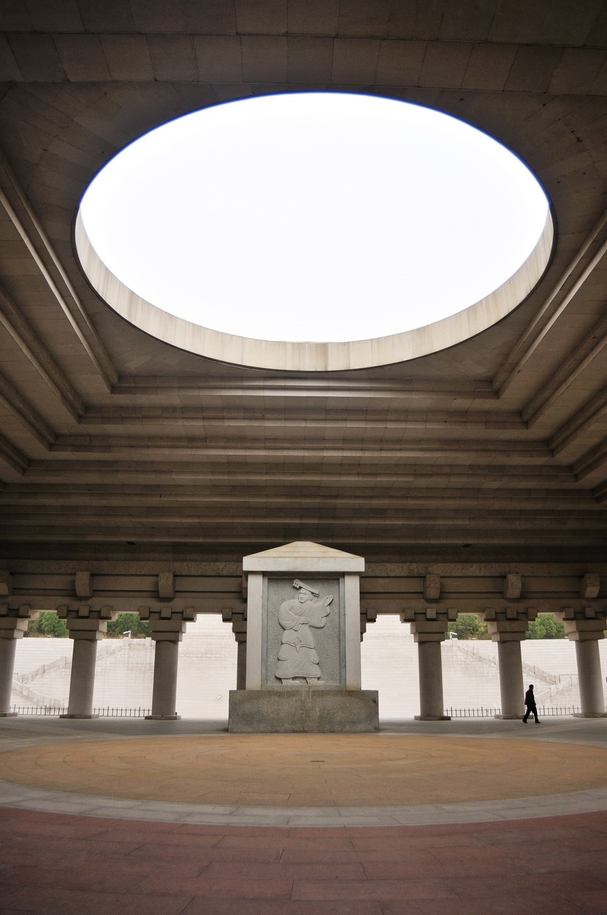 Huangdi stele in the hall of the sacrifices of the Xuanyuan Temple (轩辕殿), dedicated to the worship of Huangdi, in Huangling, Yan'an, Shaanxi.